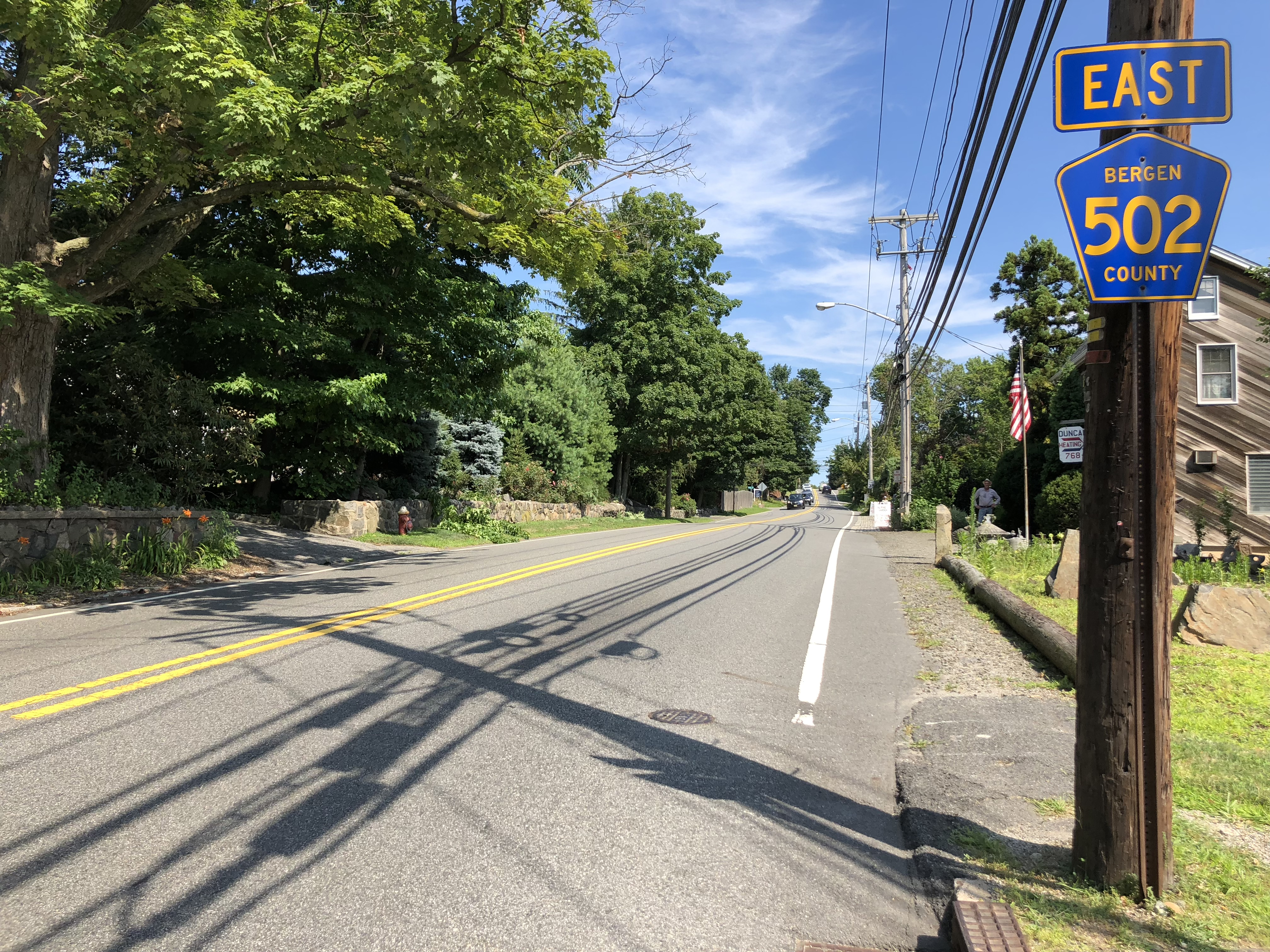 View east along Bergen County Route 502 (Closter Dock Road) at Church Street in Alpine, Bergen County, New Jersey